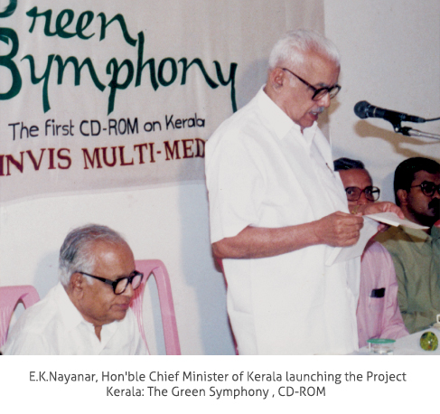 EKNayanar Chief Minister of Kerala launching the Project Kerala The Green Symphony 1998